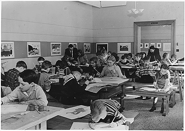 "WPA Walker Art Center in Minneapolis, Minnesota, 1941," Collection FDR-PHOCO: Franklin D. Roosevelt Library Public Domain Photographs, 1882 - 1962; National Archives and Records Administration--Rocky Mountain Region (Denver).WPA Walker Art Center in Minneapolis, Minnesota